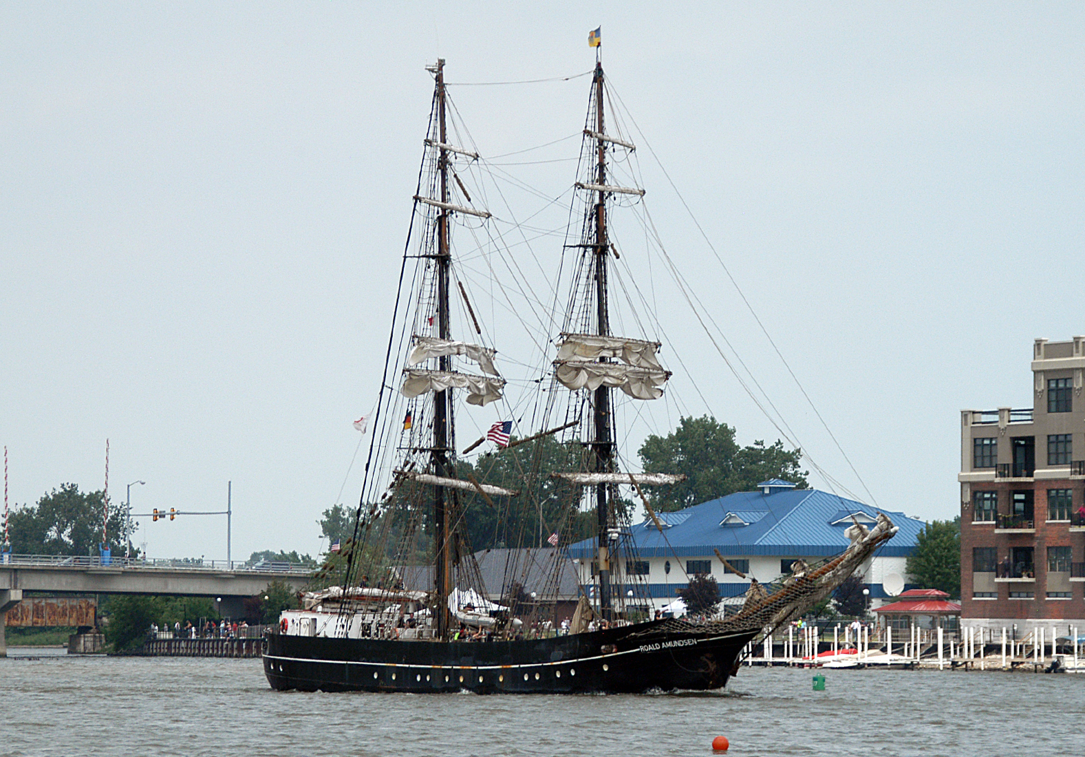 The Roald Amundsen arriving in Bay City, Michigan for the Bay City Tall Ships Festival 2010.